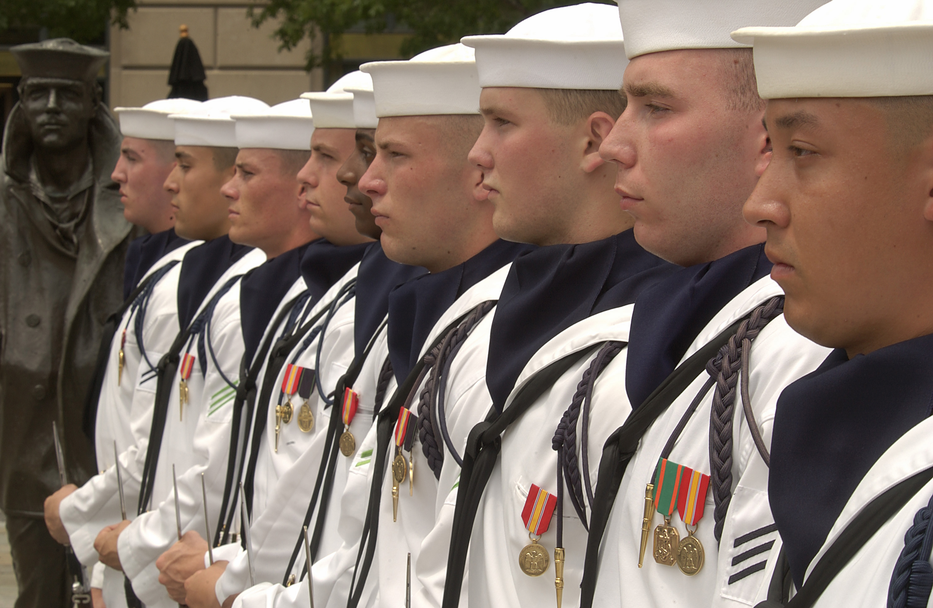 Washington, D.C. (Jul. 7, 2003) -- Members of the U.S. Navy Ceremonial Guard stand in formation next to the Lone Sailor statue at the U.S. Navy Memorial. The ceremonial guard performs on Tuesdays for the public at the memorial. The unit is made up of hand-picked sailors reporting directly from Navy basic training, who are specially trained to perform various military ceremonial honors. U.S. Navy Photo by Chief Photographer's Mate Chris Desmond. (RELEASED)